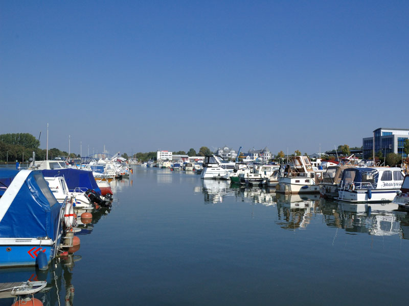 Germany Bergkamen "Marina Ruenthe"